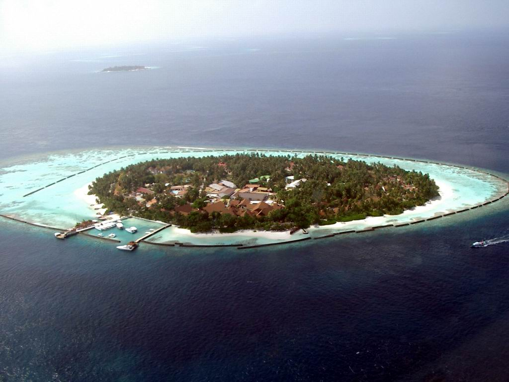 Aerial view of Kurumba Island in the Maldives